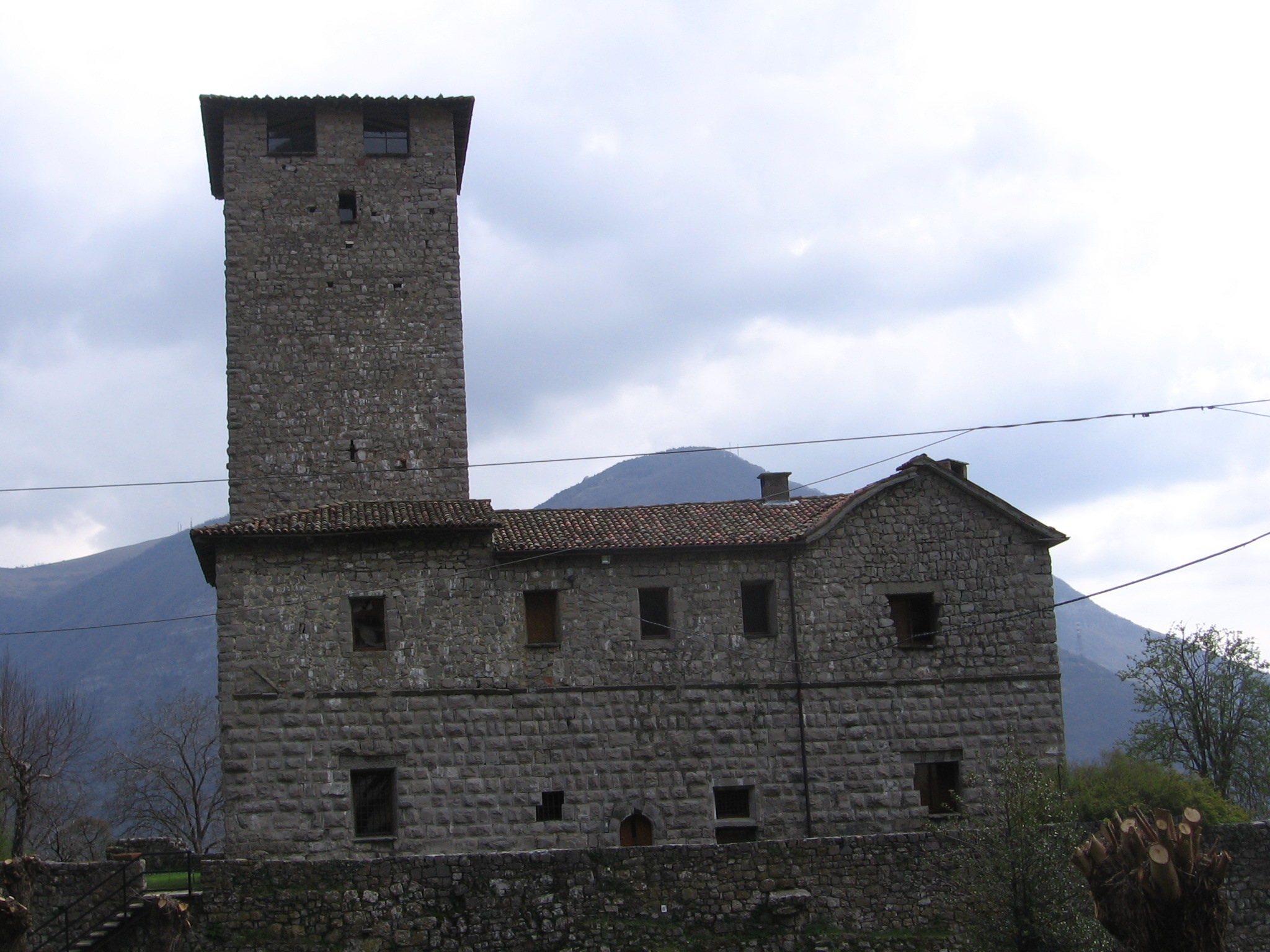 Bianzano, Bergamo, Italy - Castle